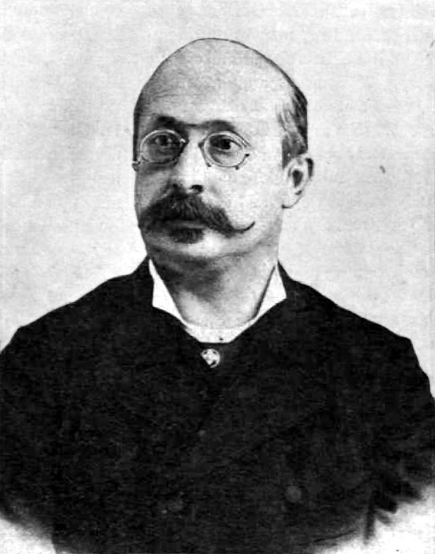 Sándor Lipthay Hungarian railway engineer, academician